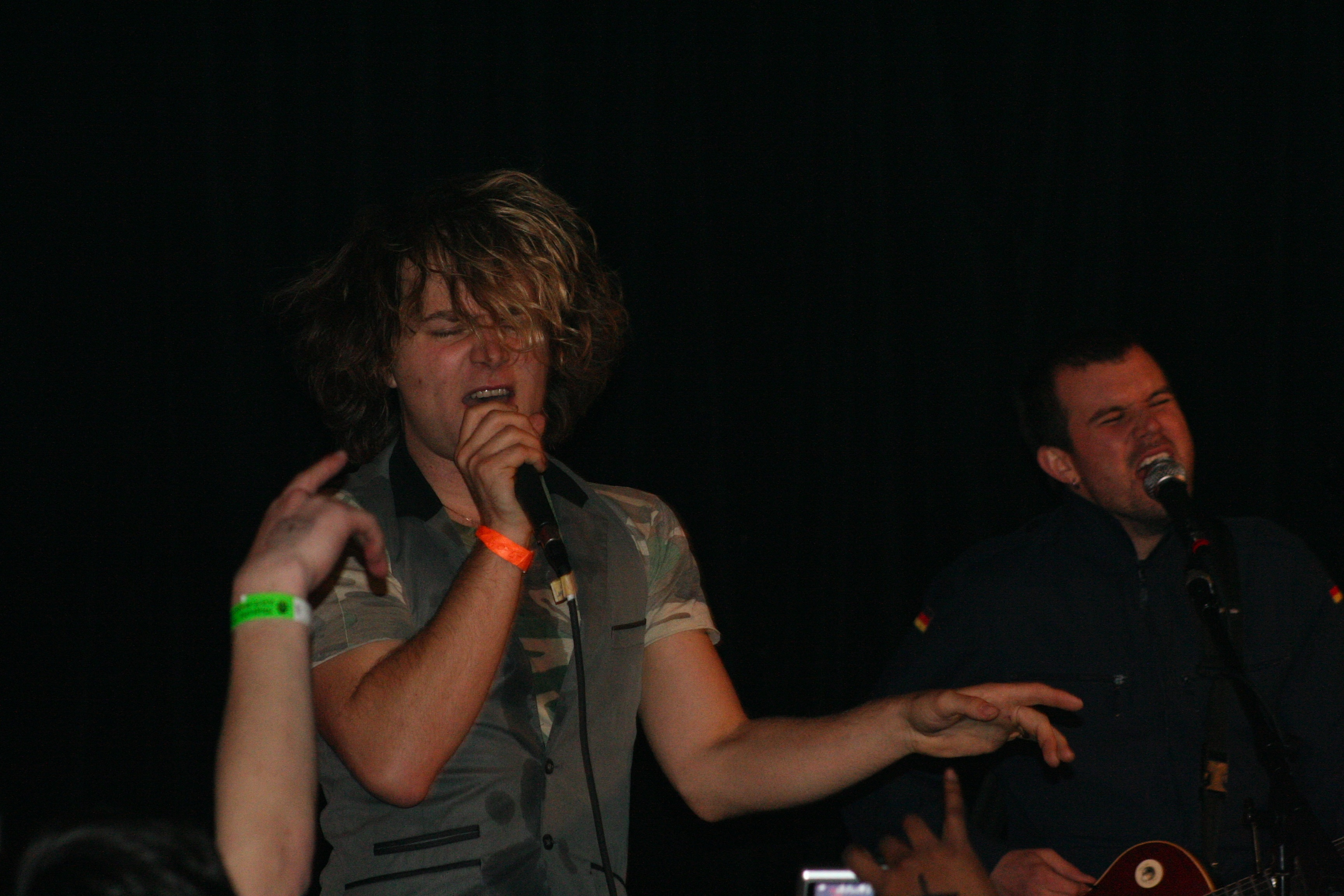 Art-rock band Jaguar Love performing in Detroit, Michigan in support of Polysics.